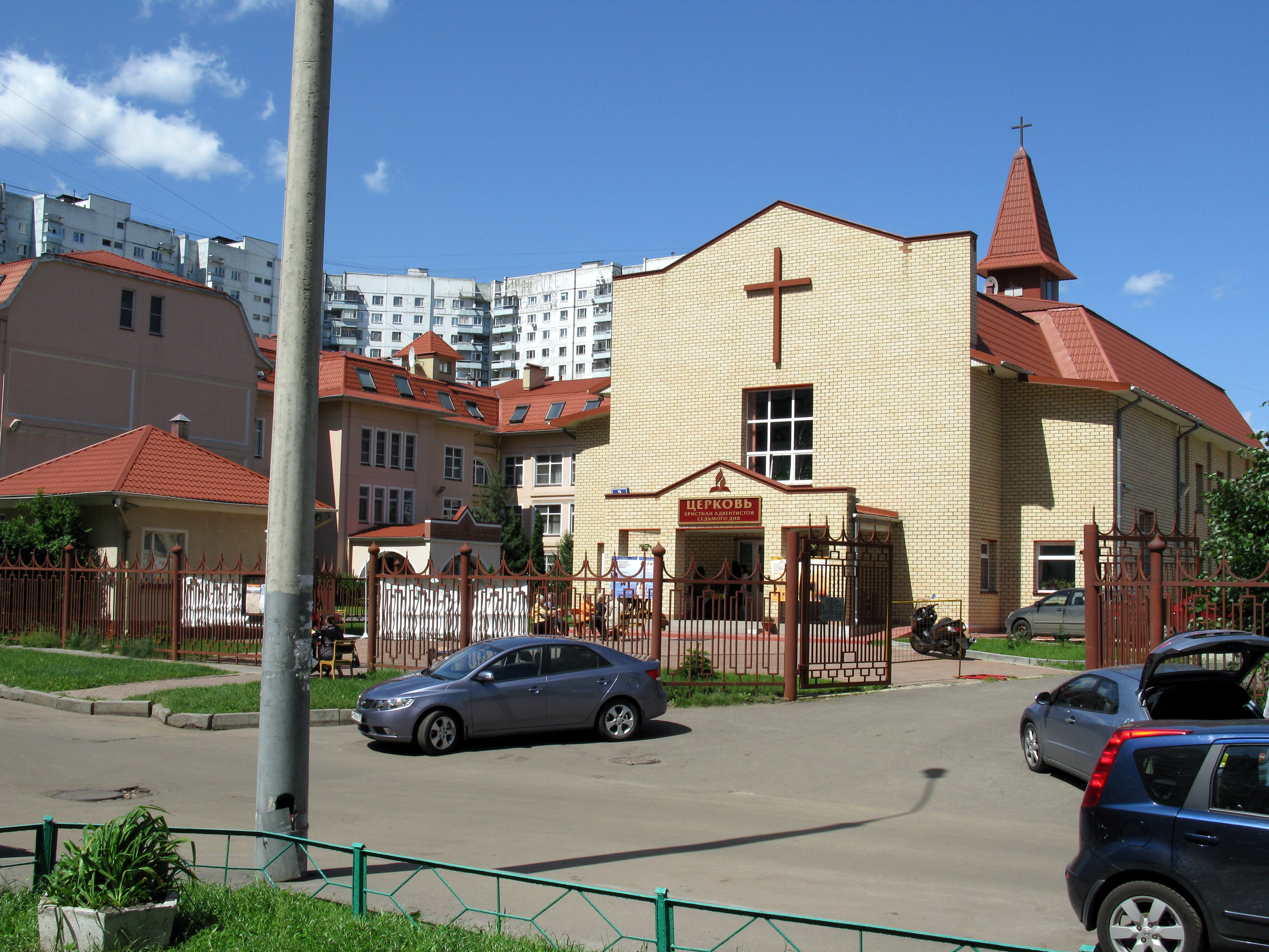 Seventh-Day Adventist church (Moscow)